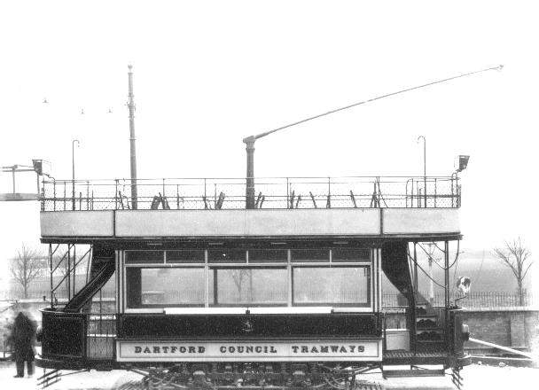 Dartford Council Tramway car, possibly at the depot in Victoria Road.